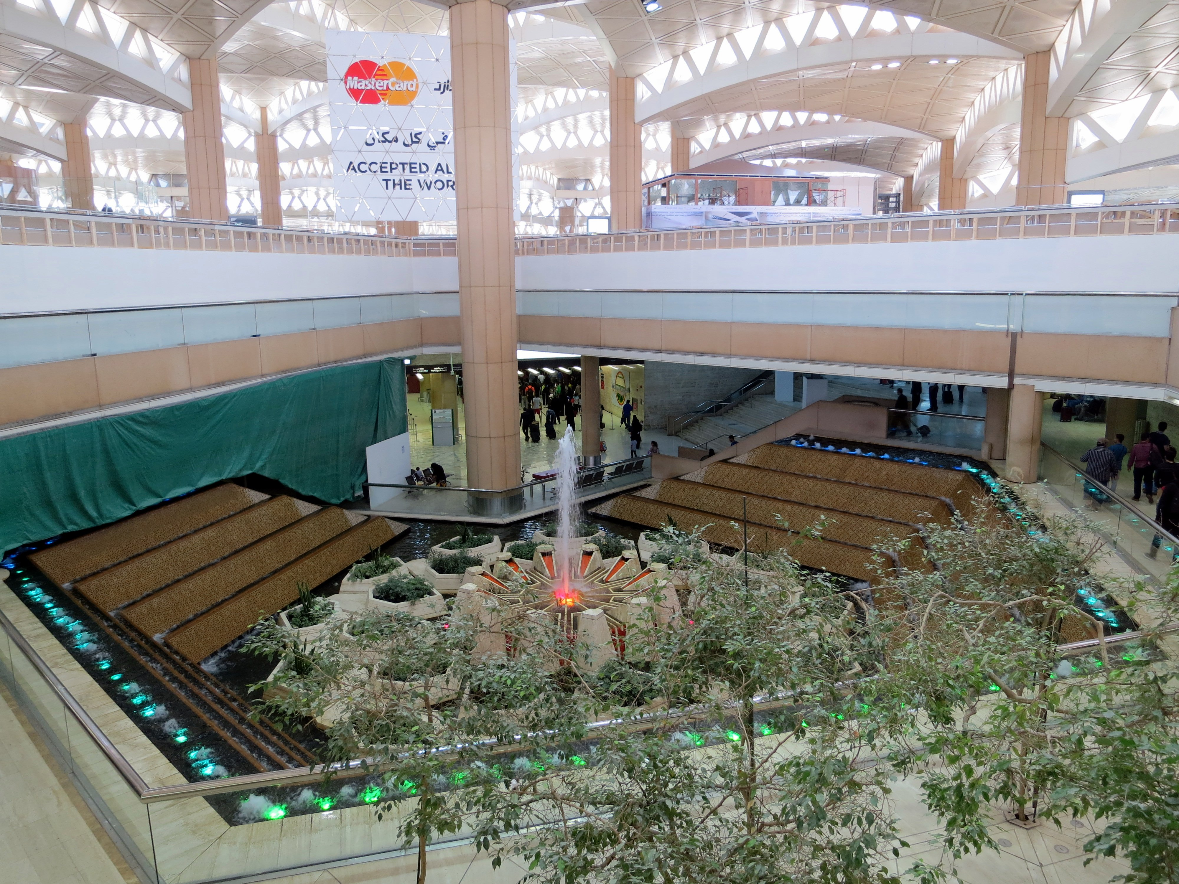 Fountain at Riyadh Airport